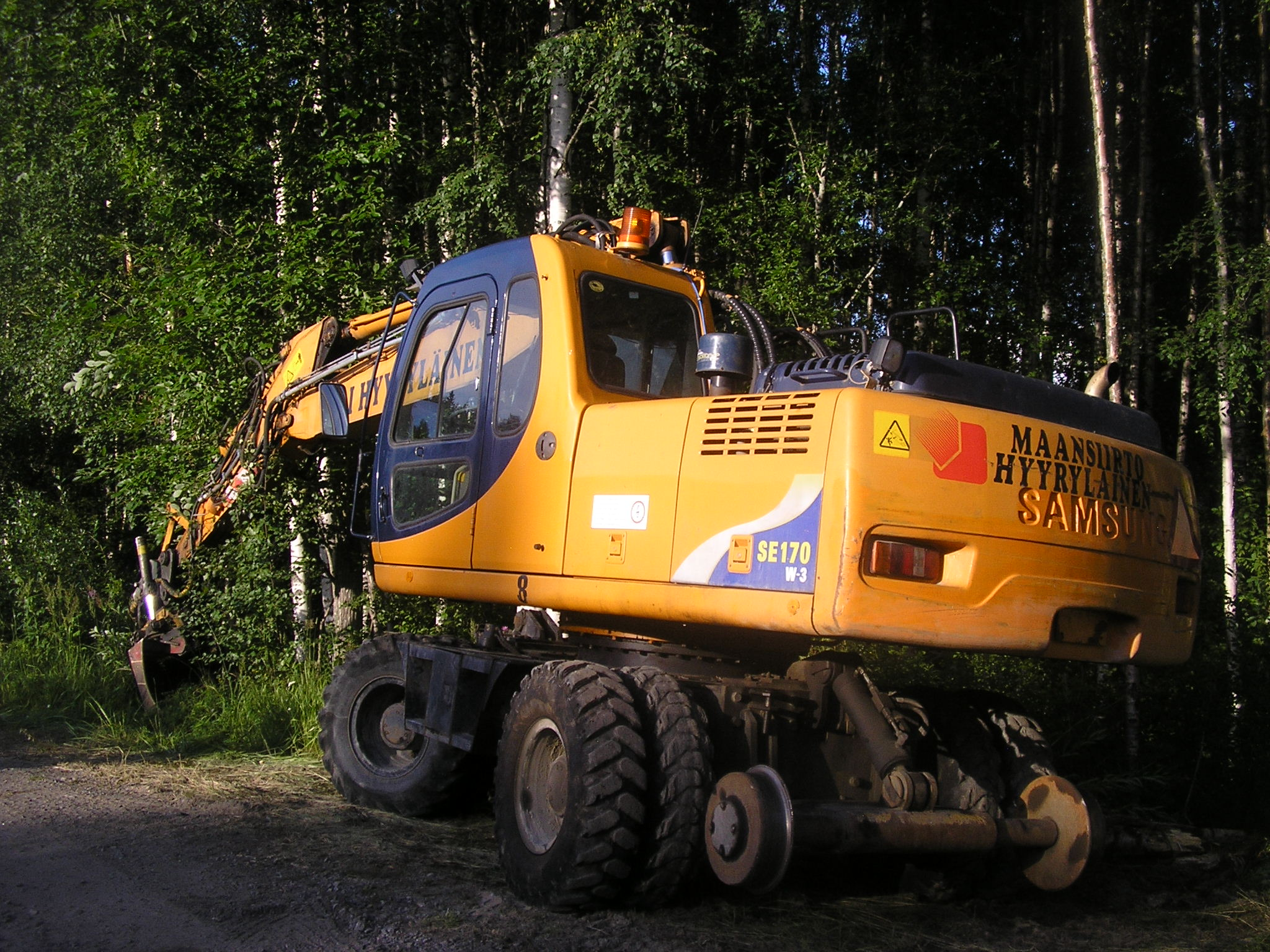 Samsung SE170 road-rail excavator of Veli Hyyryläinen Oy in Muurame